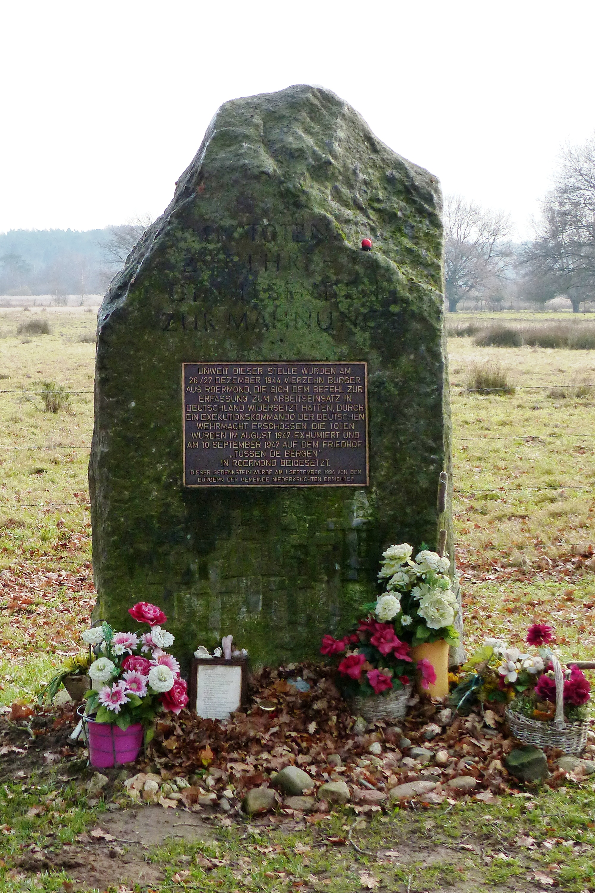 The so-called 'Lüsekamp Mahnmal', set up in 1996 near the German town of Niederkrüchten to the memory of 14 citizens of the Dutch town of Roermond, shot in December 1944 by a German Wehrmacht firing squad.